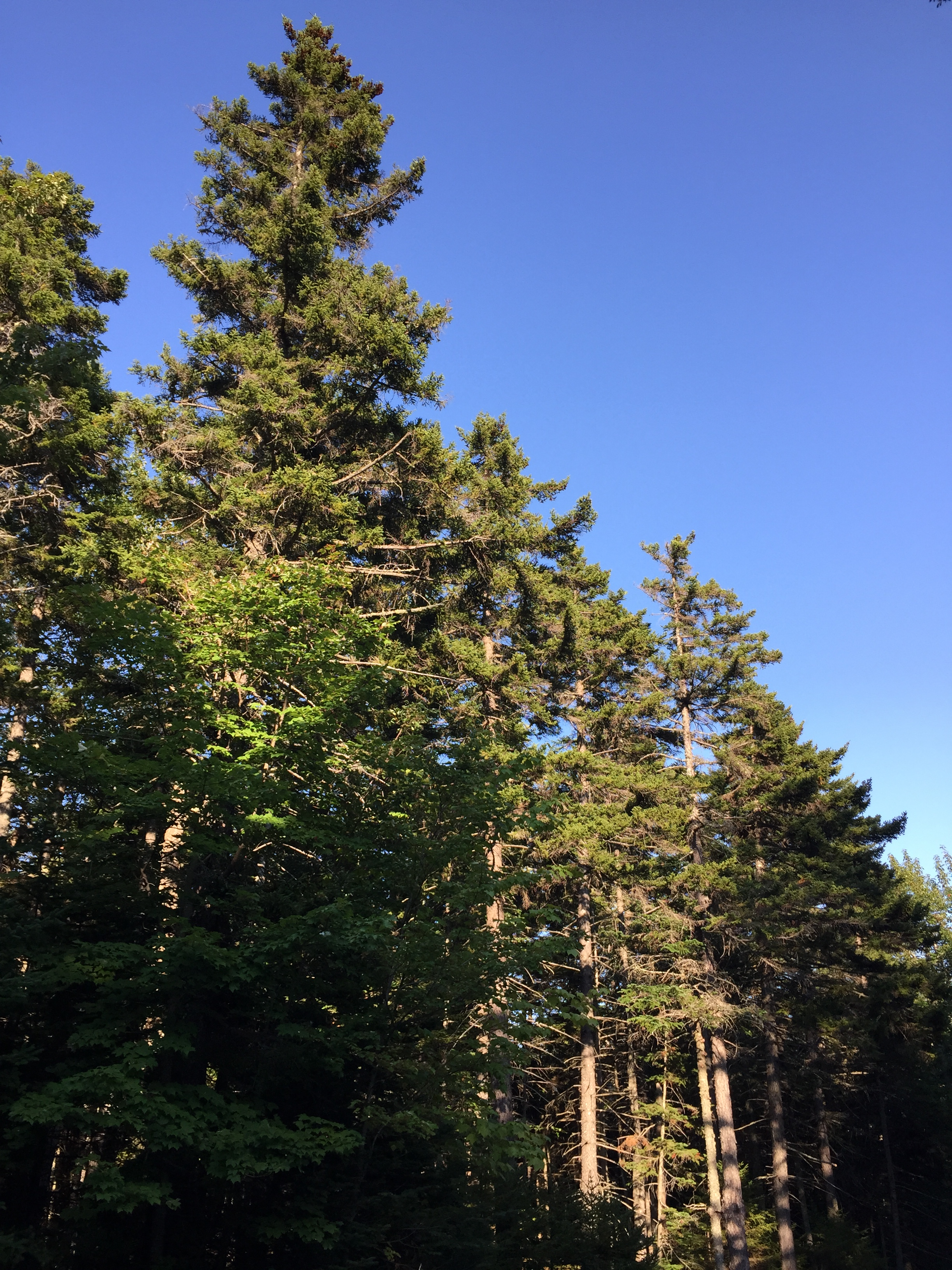 Red Spruce trees along the Mount Washington Auto Road at about mile 1.3 (about 2220 feet above sea level) in Sargent's Purchase Township, Coos County, New Hampshire